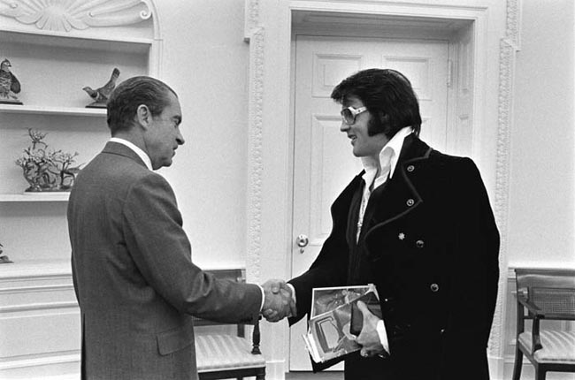 Elvis Presley meeting Richard Nixon. On December 21, 1970, at his own request, Presley met then-President Richard Nixon in the Oval Office of The White House. This media is available in the holdings of the National Archives and Records Administration, cataloged under the National Archives Identifier (NAID) 194703. This tag does not indicate the copyright status of the attached work. A normal copyright tag is still required. See Commons:Licensing for more information. This image is a work of an employee of the Executive Office of the President of the United States, taken or made as part of that person's official duties. As a work of the U.S. federal government, the image is in the public domain.